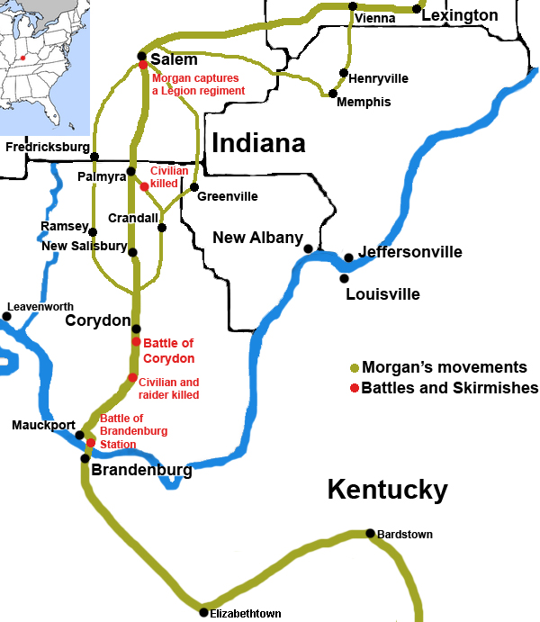 A map showing the detailed course of Morgan's raid before and after the Battle of Corydon. Thick line represents the main body of troops, with smaller lines representing detachments sent to raid the countryside.